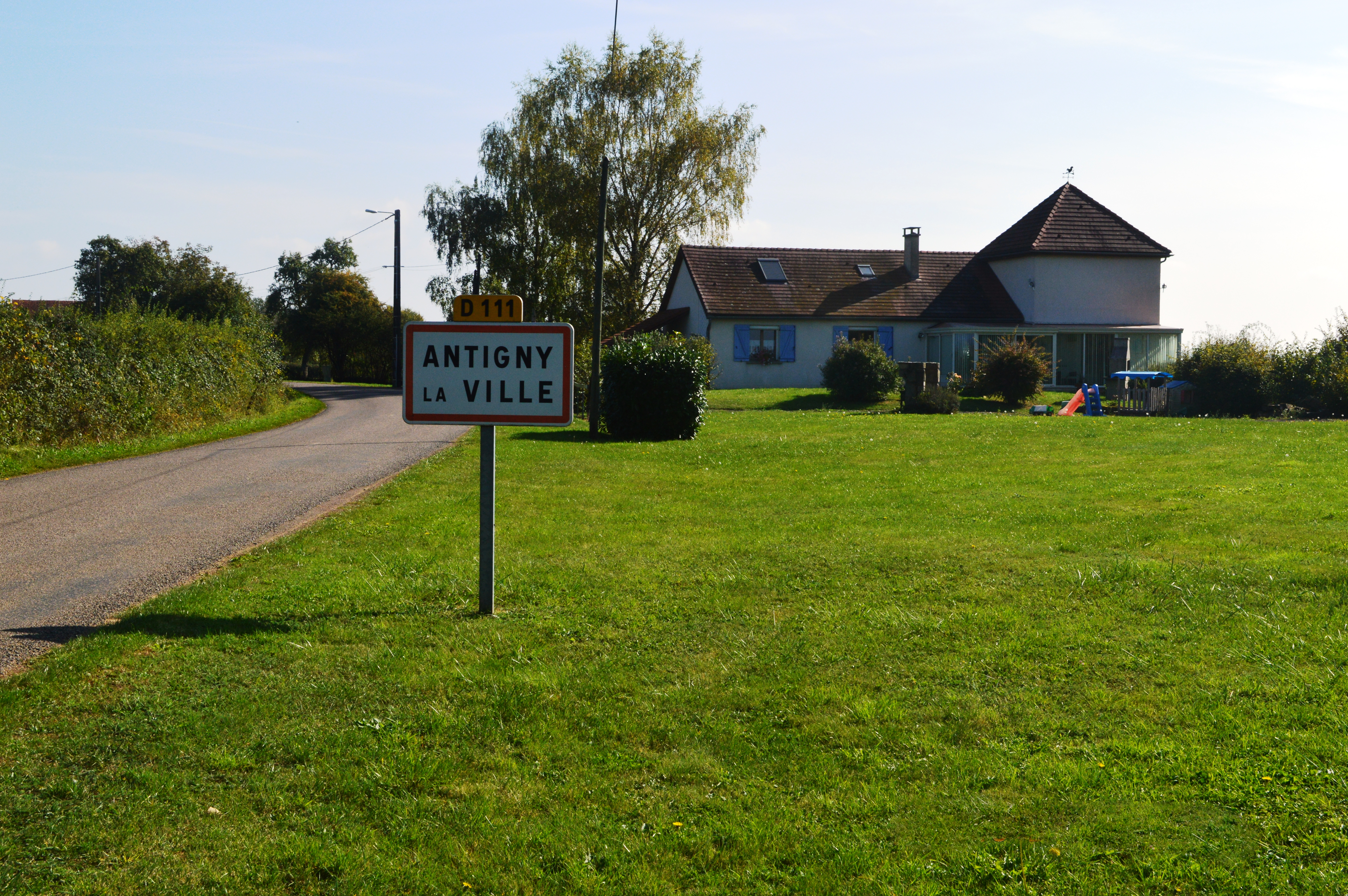 The entry to Antigny-la-Ville